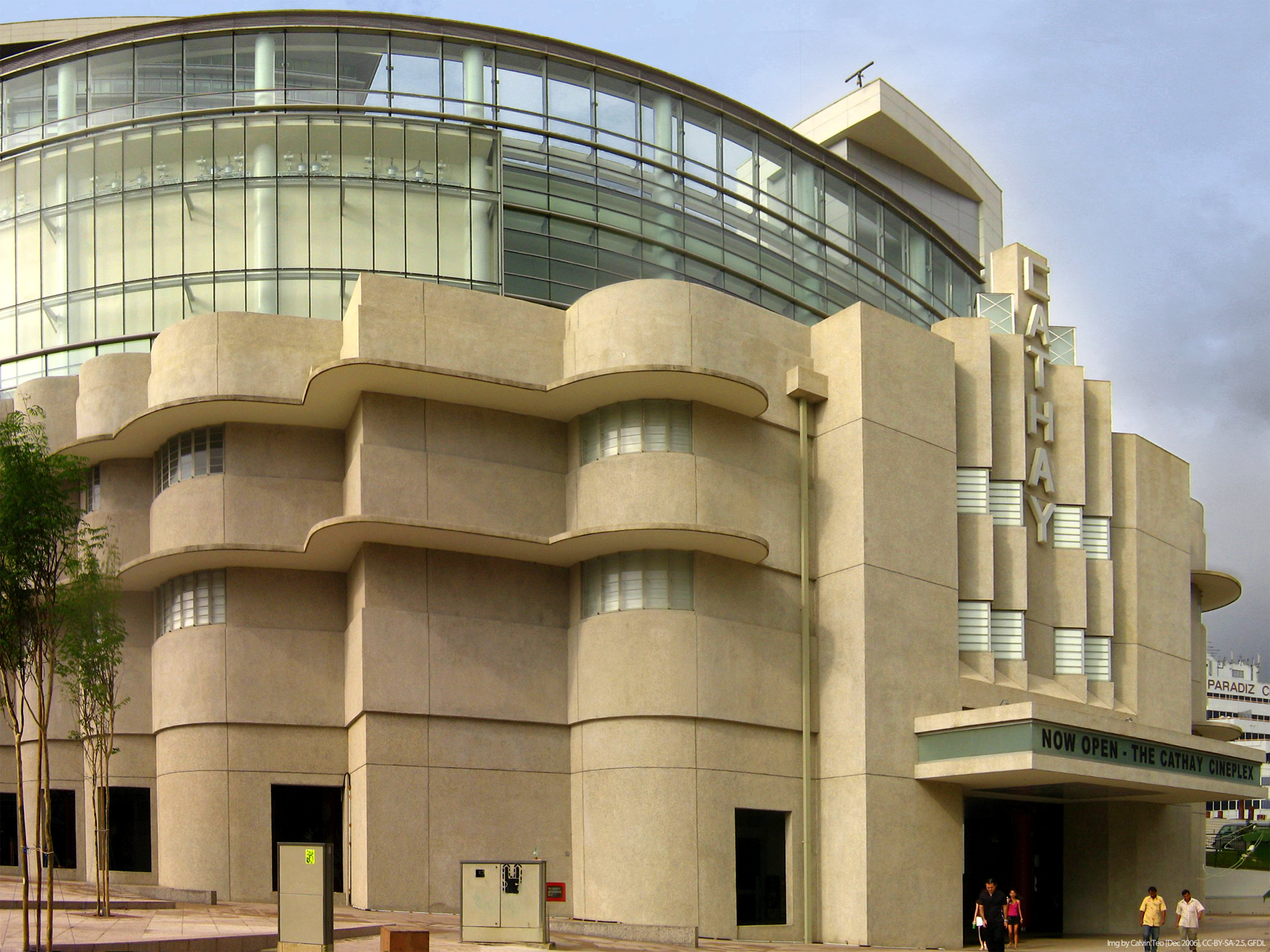 Distinctive Frontal facade of The Cathay Building in Singapore, near Dhoby Ghaut and Museum areas. (3mp version)